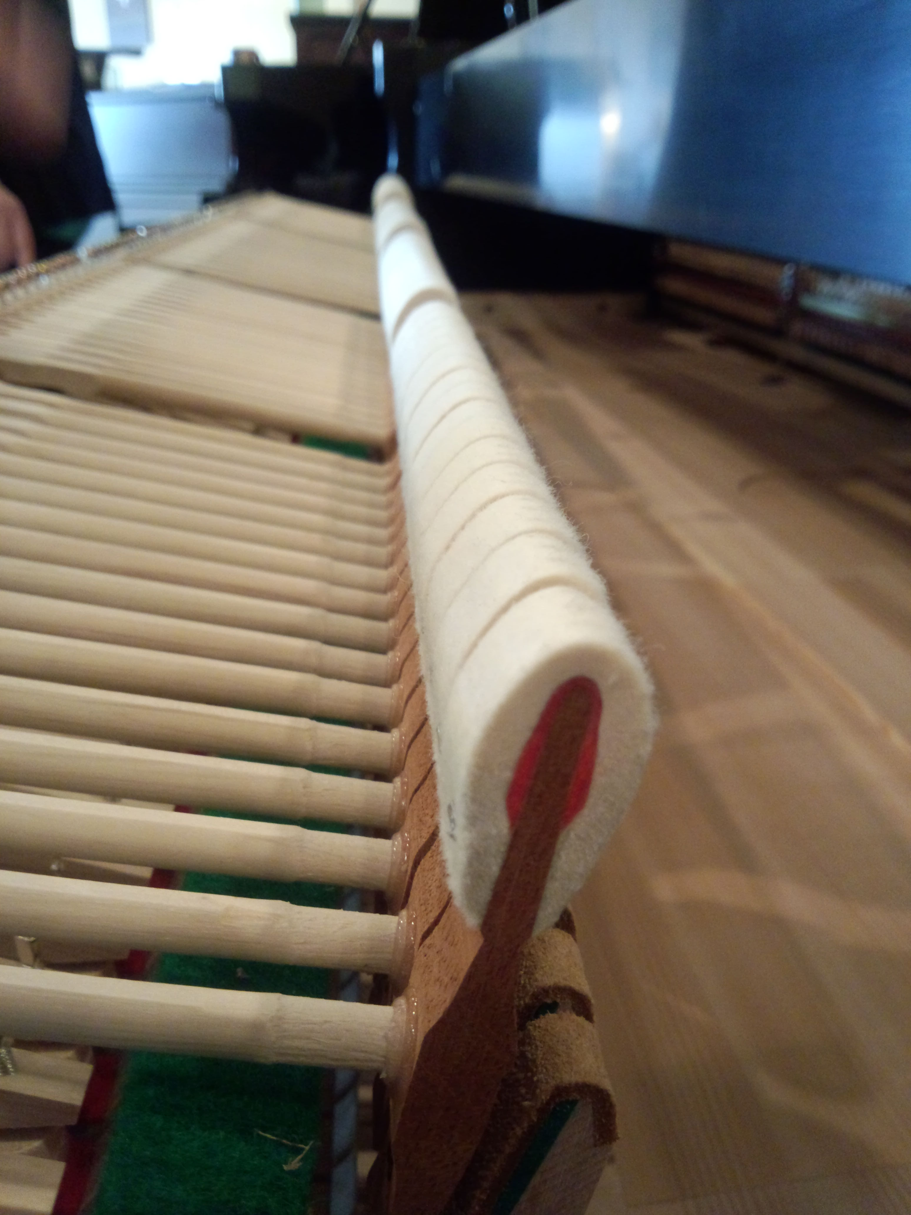 This is actually a Boston piano, which is Steinway's performance class line. Look at those lovely pear-shaped hammers. Photo by R-M Arca. A Look Inside the Piano One recurring optional activity I've set up for my studio (which is open to colleagues' studios) are these workshops that take you inside the piano. We will be visiting more than one piano dealer to learn about the differences between the different kinds.